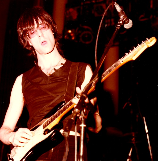 Lenny Kaye playing lead guitar with the Patti Smith Group 1978